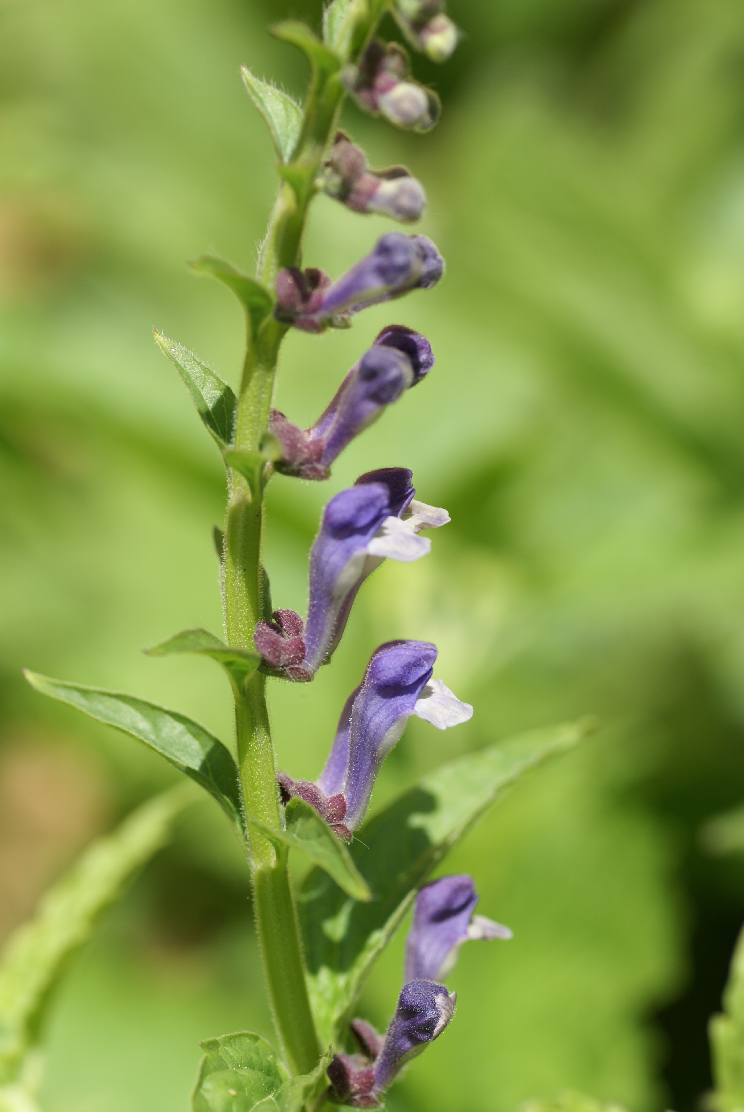 Plant species Scutellaria altissima in Botaniska trädgården in Uppsala, Sweden